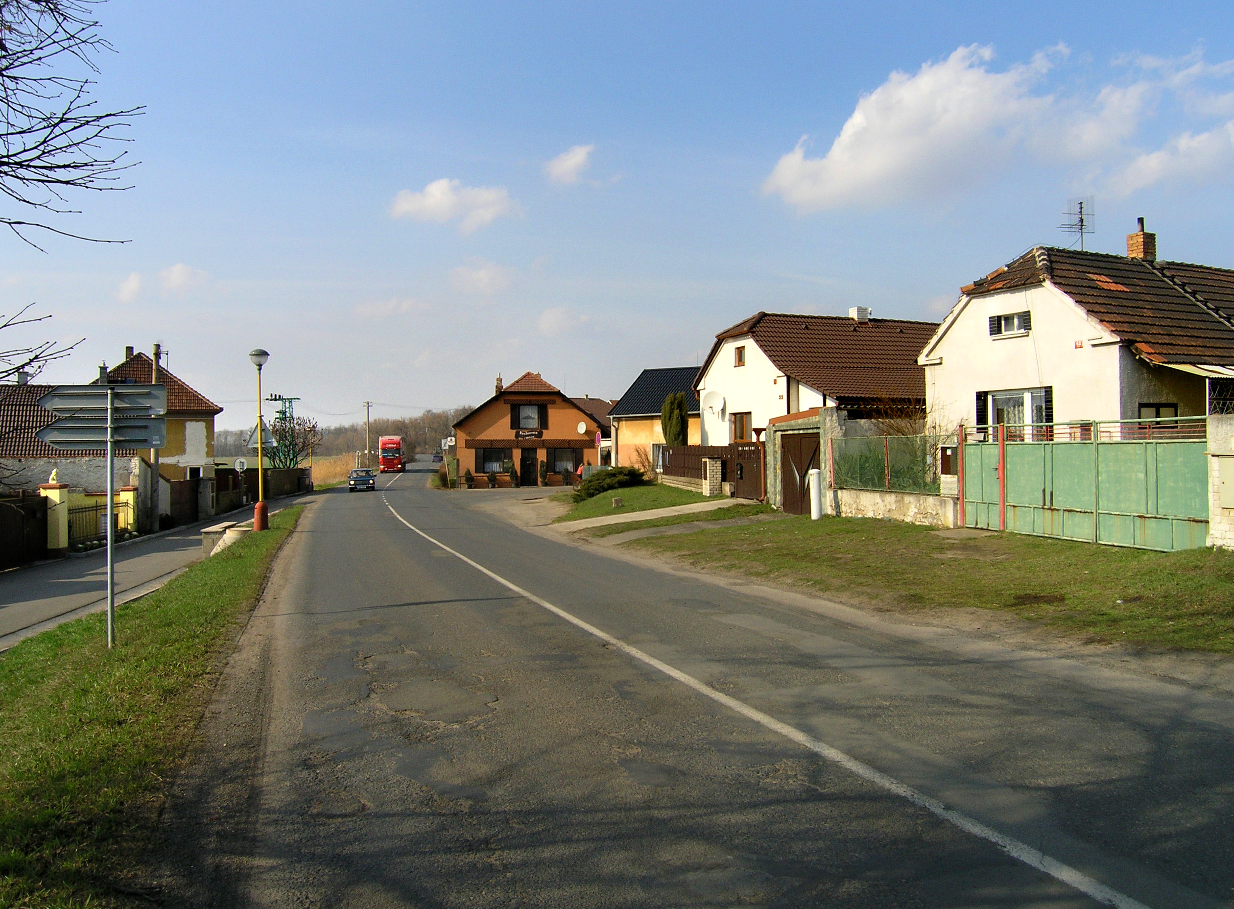 Mělnická street in Tišice village, Czech Republic